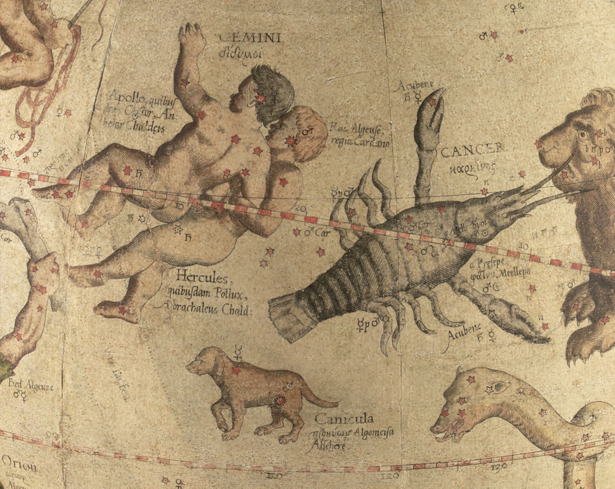 Gemini and Cancer constellations from the Mercator celestial globe.